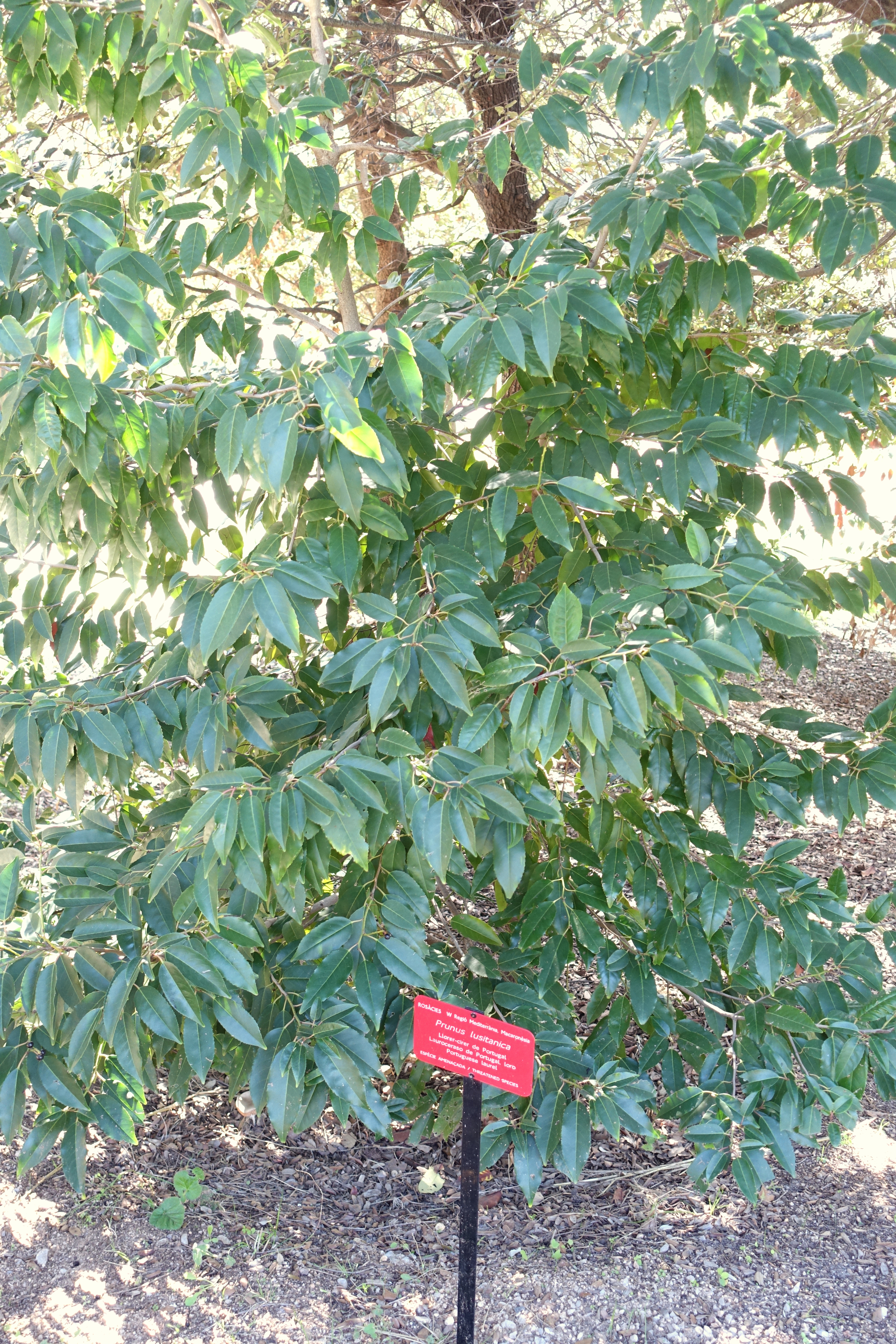 Botanical specimen in the Jardín Botánico de Barcelona - Barcelona, Spain.